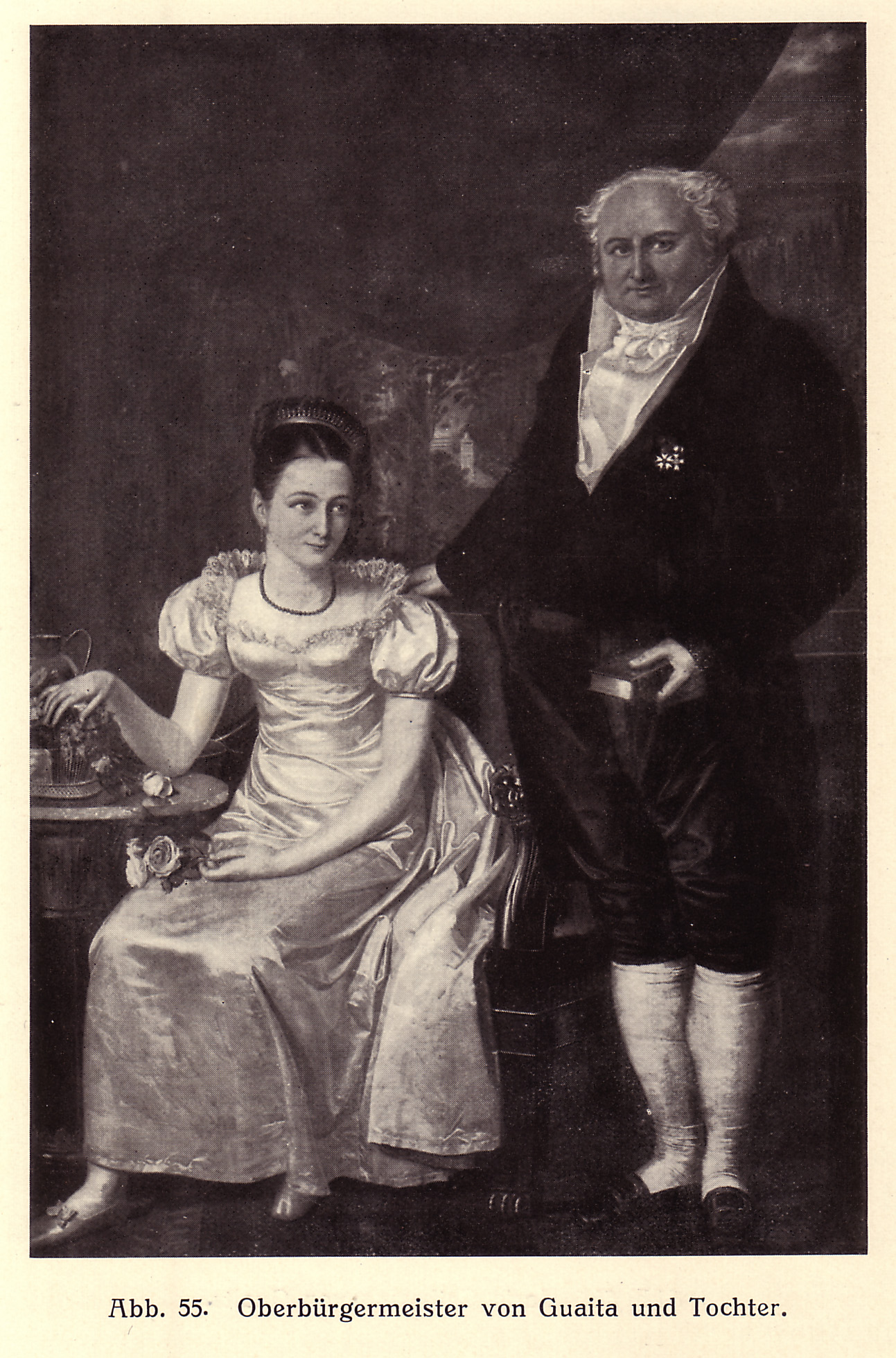 Lord Mayor Cornelius von Guaita (1766-1821) with his daughter Maria Catharina Josepha (later: von Limpens)